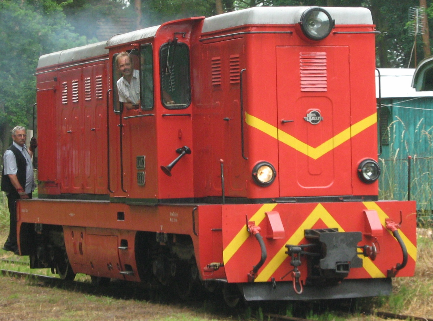 Narrow gauge railway locomotive (Lxd2 type, number 473) Pogorzelica-Gryfice line, Poland